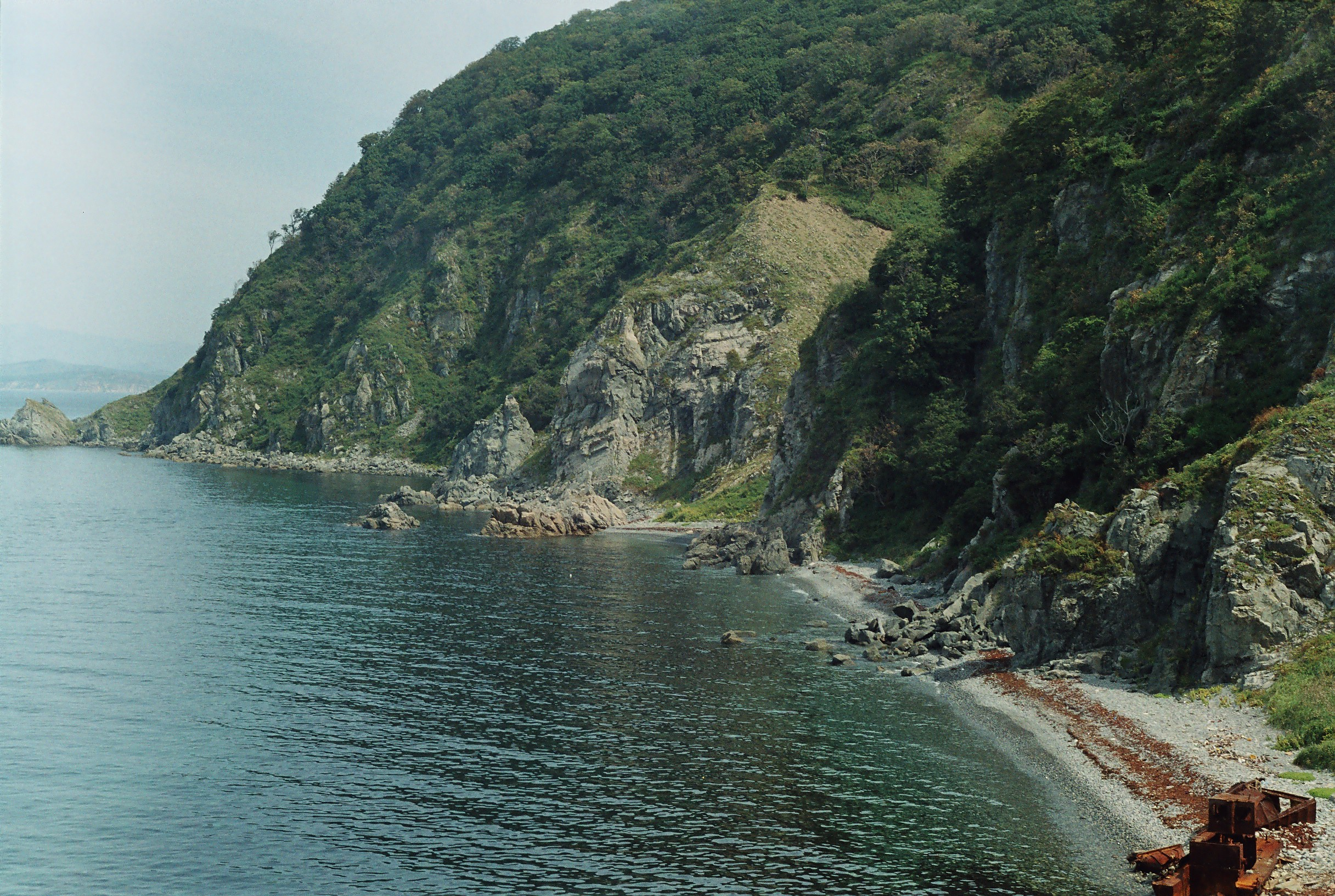 Askold island